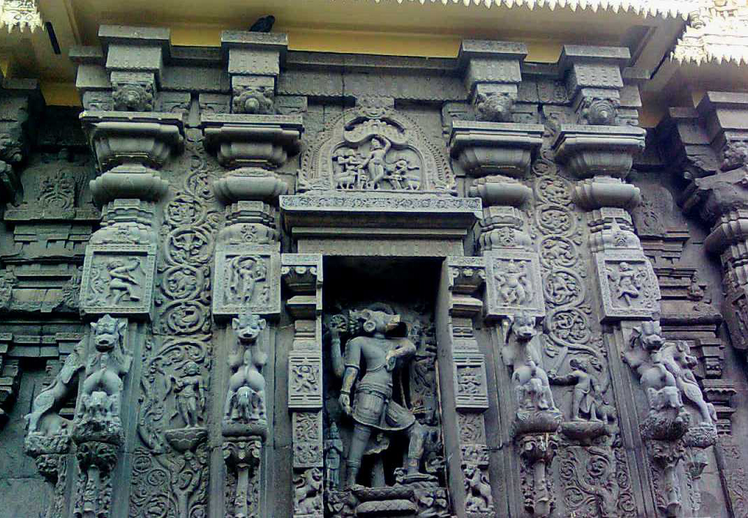 Lord Varaha stonecarved statue at Simhachalam temple